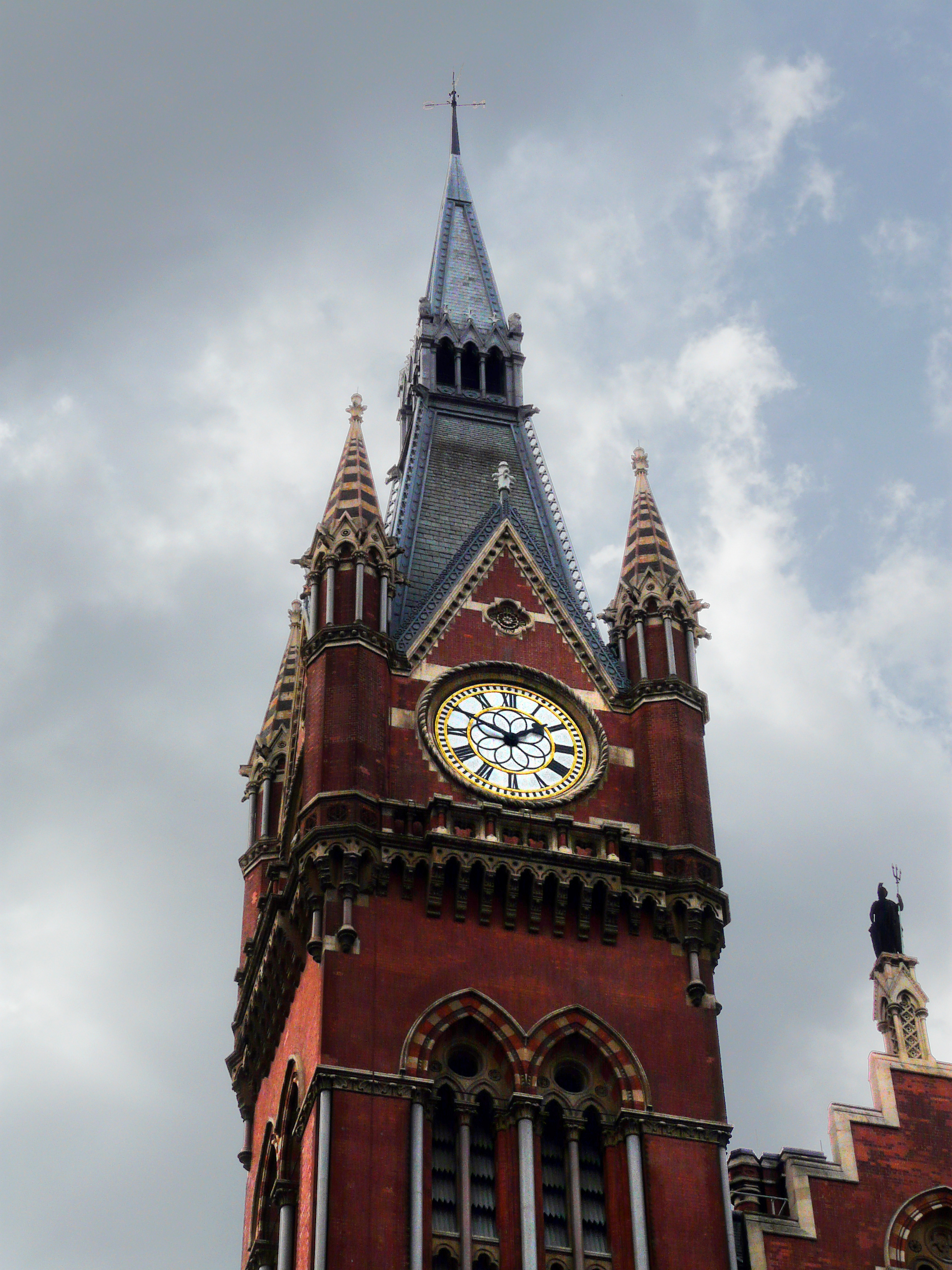 Photo of the clock tower of St Pancras railway station, London.